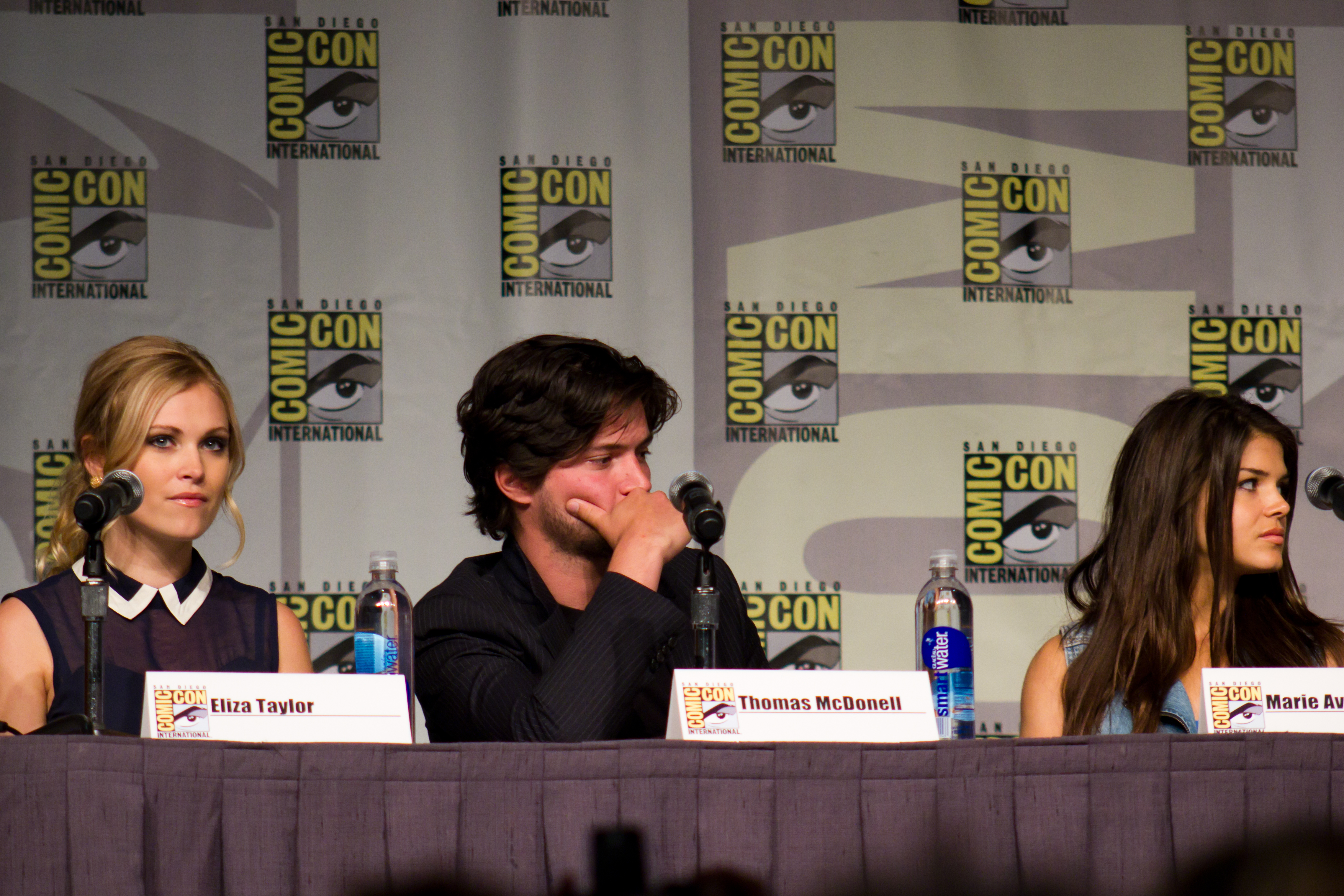 Eliza Taylor, Thomas McDonell & Marie Avgeropoulos on the "The 100" panel at the 2013 Comic-Con.